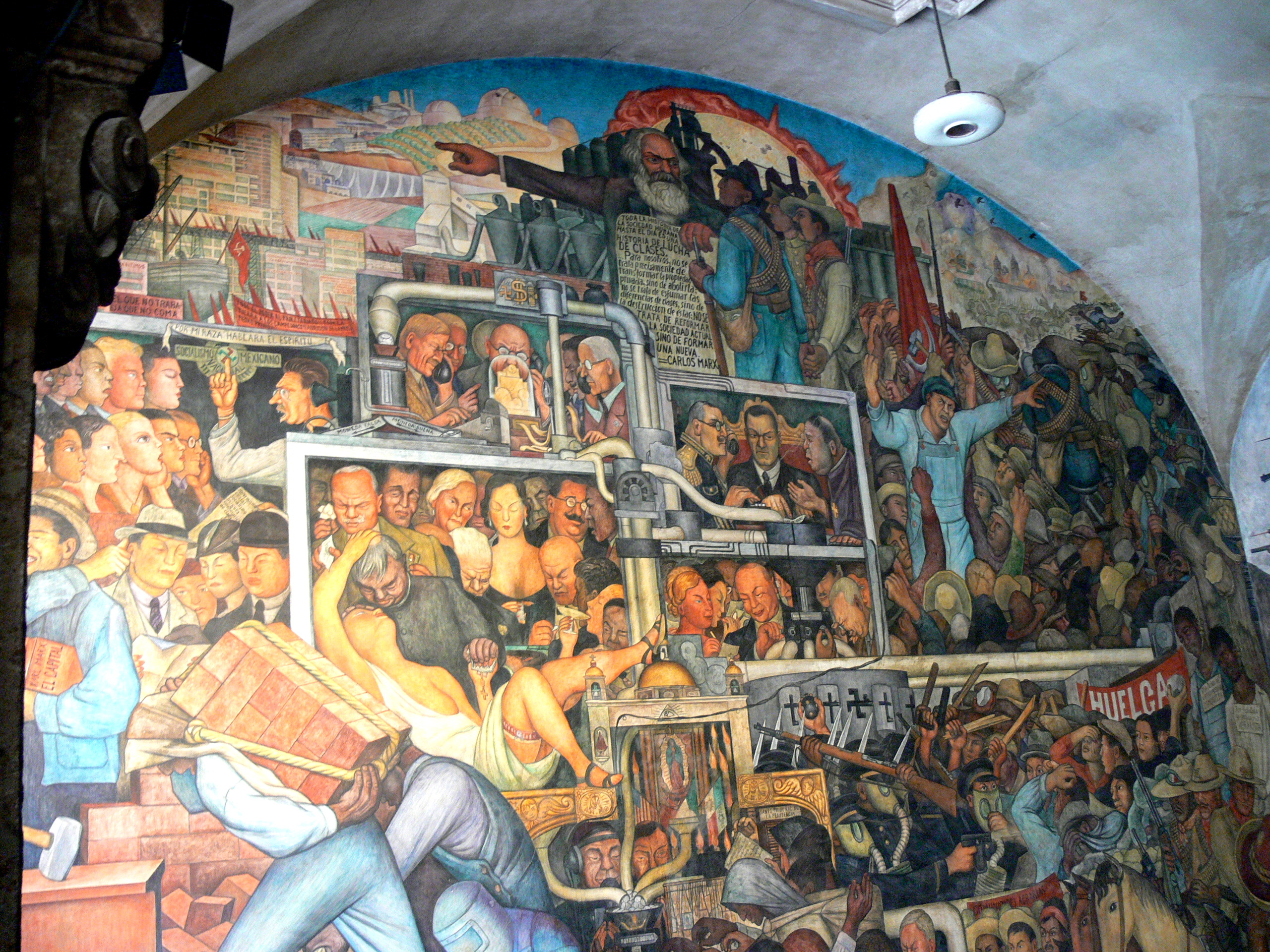 Mexico City - Palacio Nacional. Mural by Diego Rivera showing the History of Mexico: Detail showing the betrayed revolution.